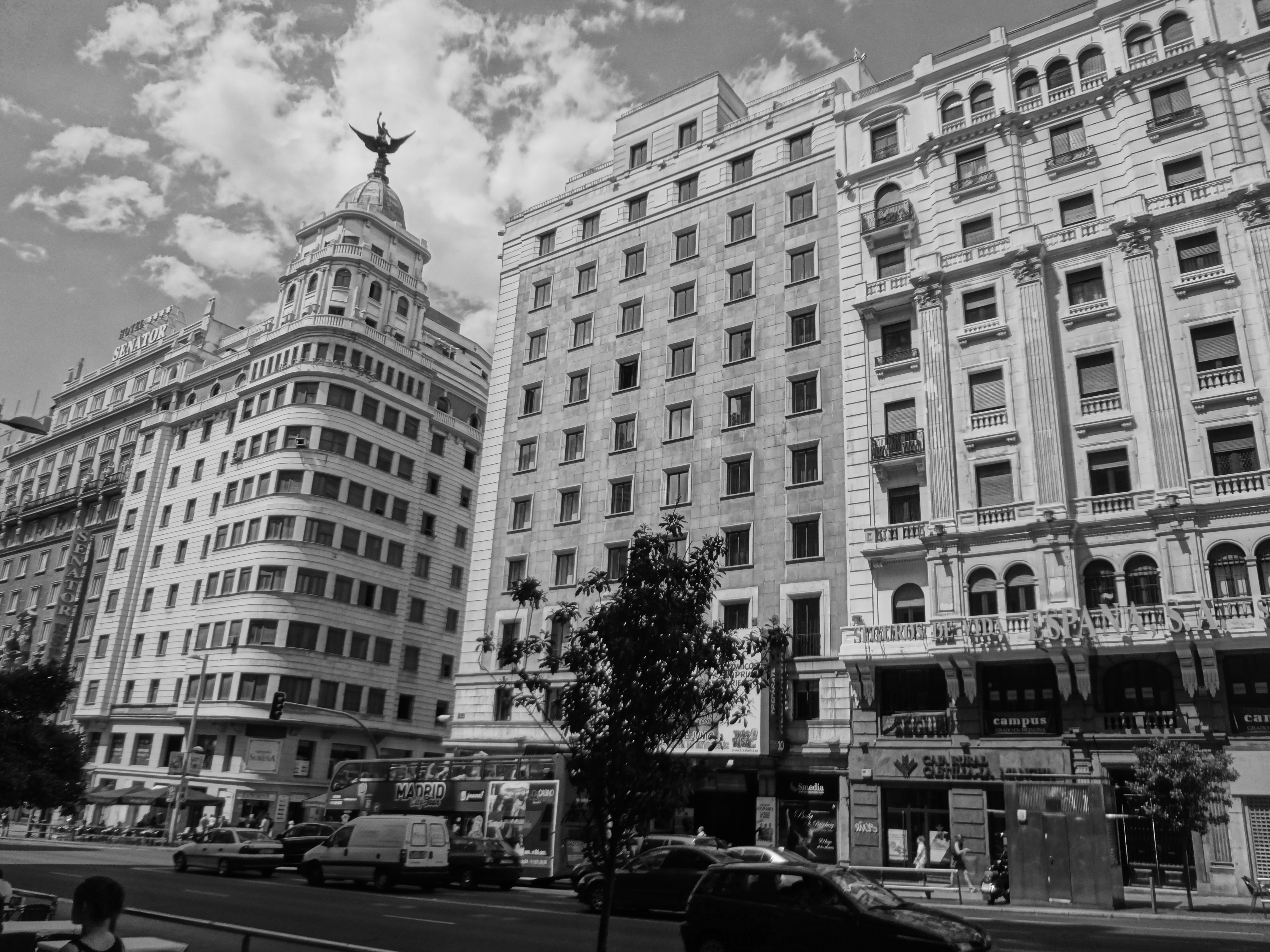 A Black and white photograph of building at Gran Via, Madrid Spain